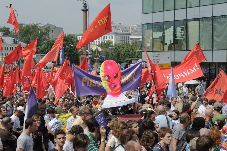 On June 12, 2012, an opposition rally was held in Moscow. During the demonstration, slogans were shouted against the government of Putin and his regime. The march took place against the backdrop of interrogations of the leaders of the opposition movement, and the next day after were large-scale searches.[clarification needed]